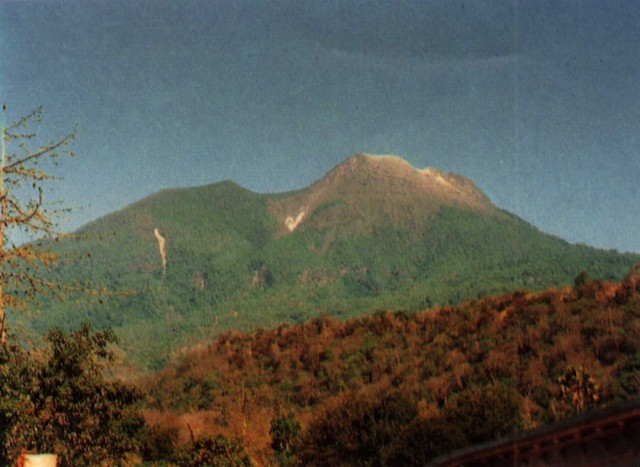 Gunung Egon volcano, seen here from the NW, sits astride the narrow waist of eastern Flores Island. The lower flanks of Egon volcano extend nearly to both the Flores Sea on the north and the Savu Sea to the south. The unvegetated summit of the volcano is capped by a 350-m-wide crater. A lava dome forms a lesser summit to the south.